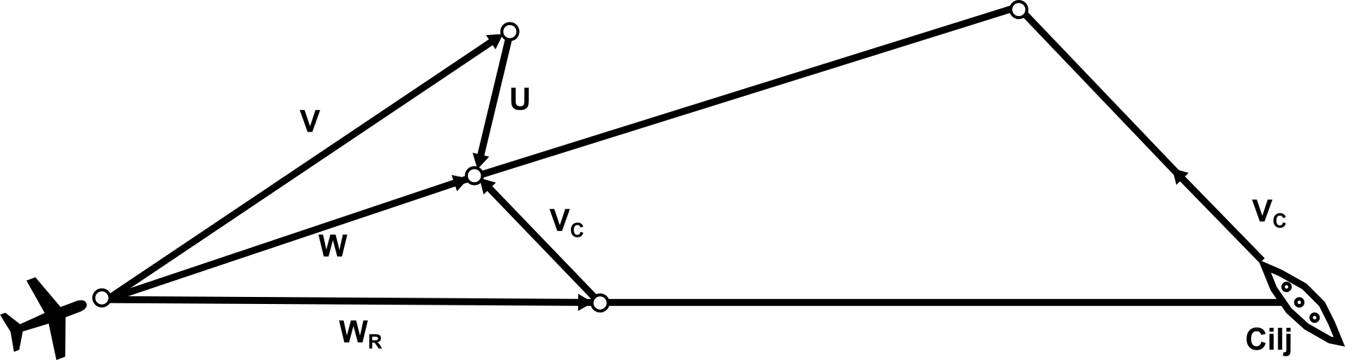 Relative speed of approaching the aircraft towards the goal